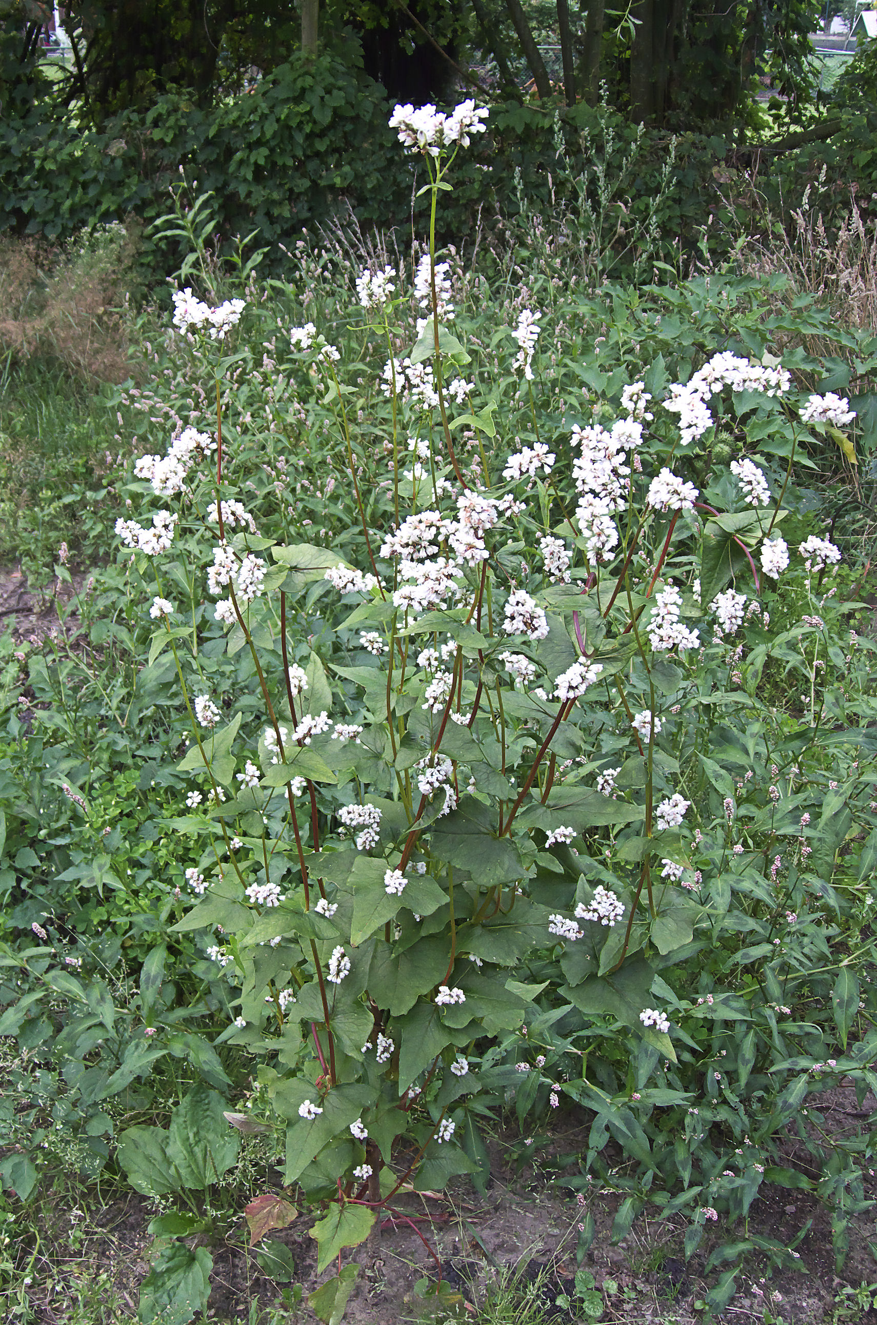 Fagopyrum esculentum plant